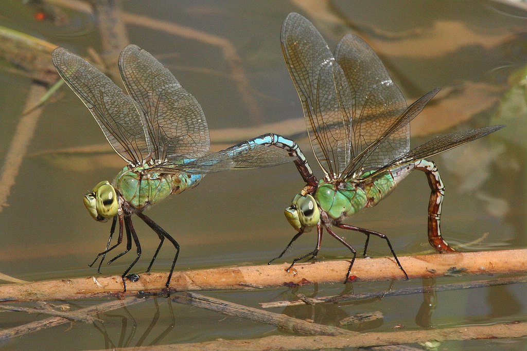 Green darner dragonflies at Bosque del Apache National Wildlife Refuge. Credit: J.N. Stuart, Creative Commons